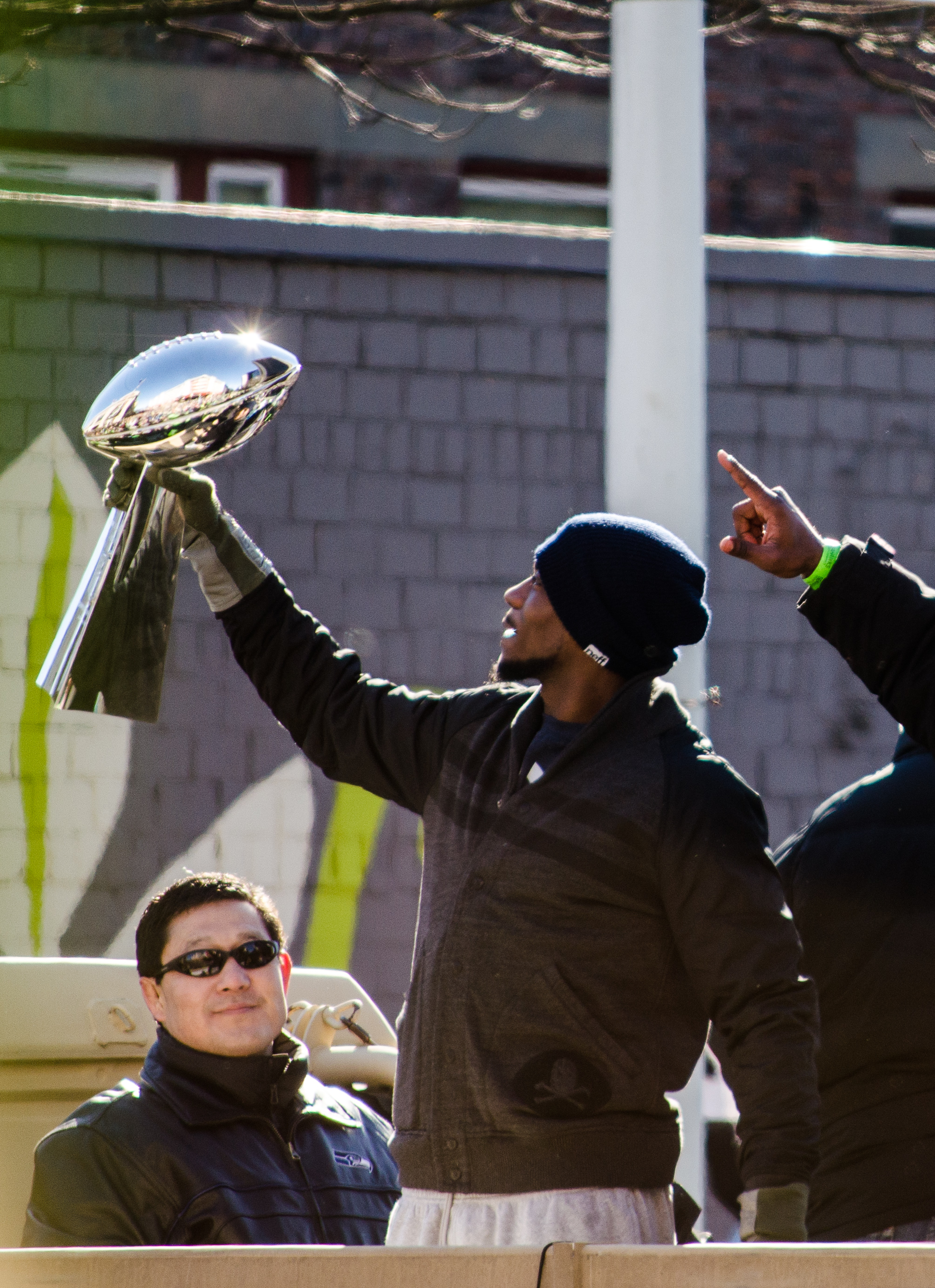 Percy Harvin holding the Lombardy Trophy in the Seattle Seahawks Super Bowl winning Parade in Seattle, 02.05.2014